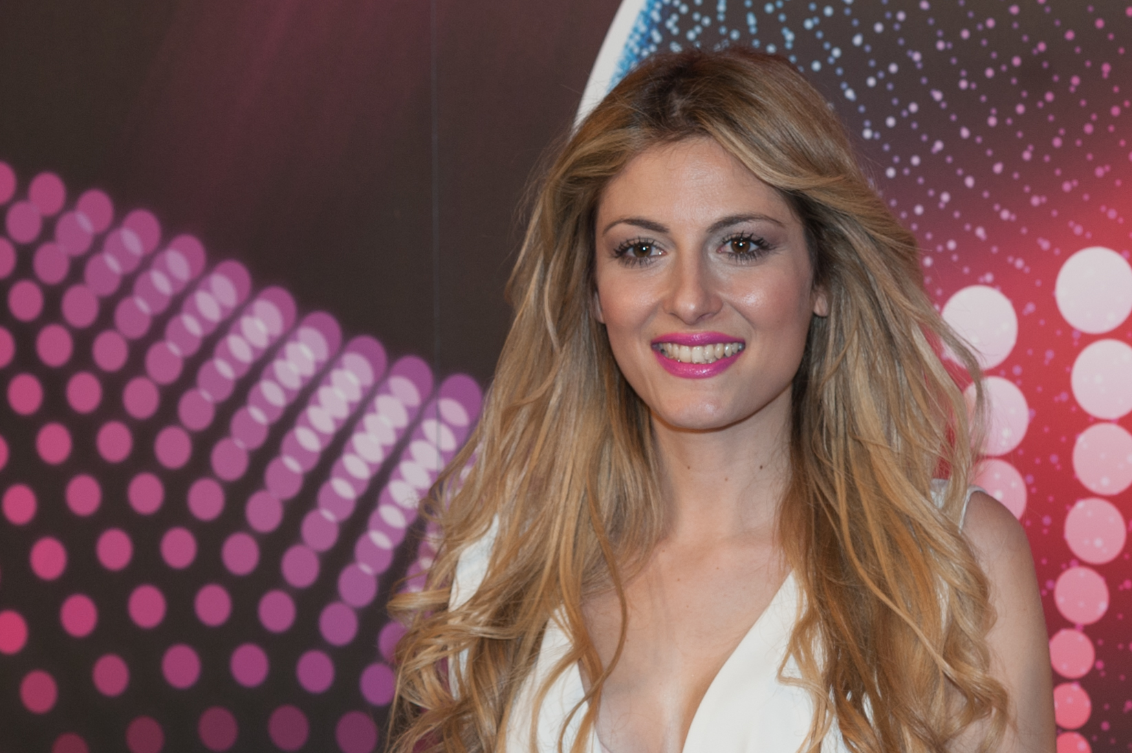 Eurovision Song Contest Vienna 2015: Maria Elena Kyriakou